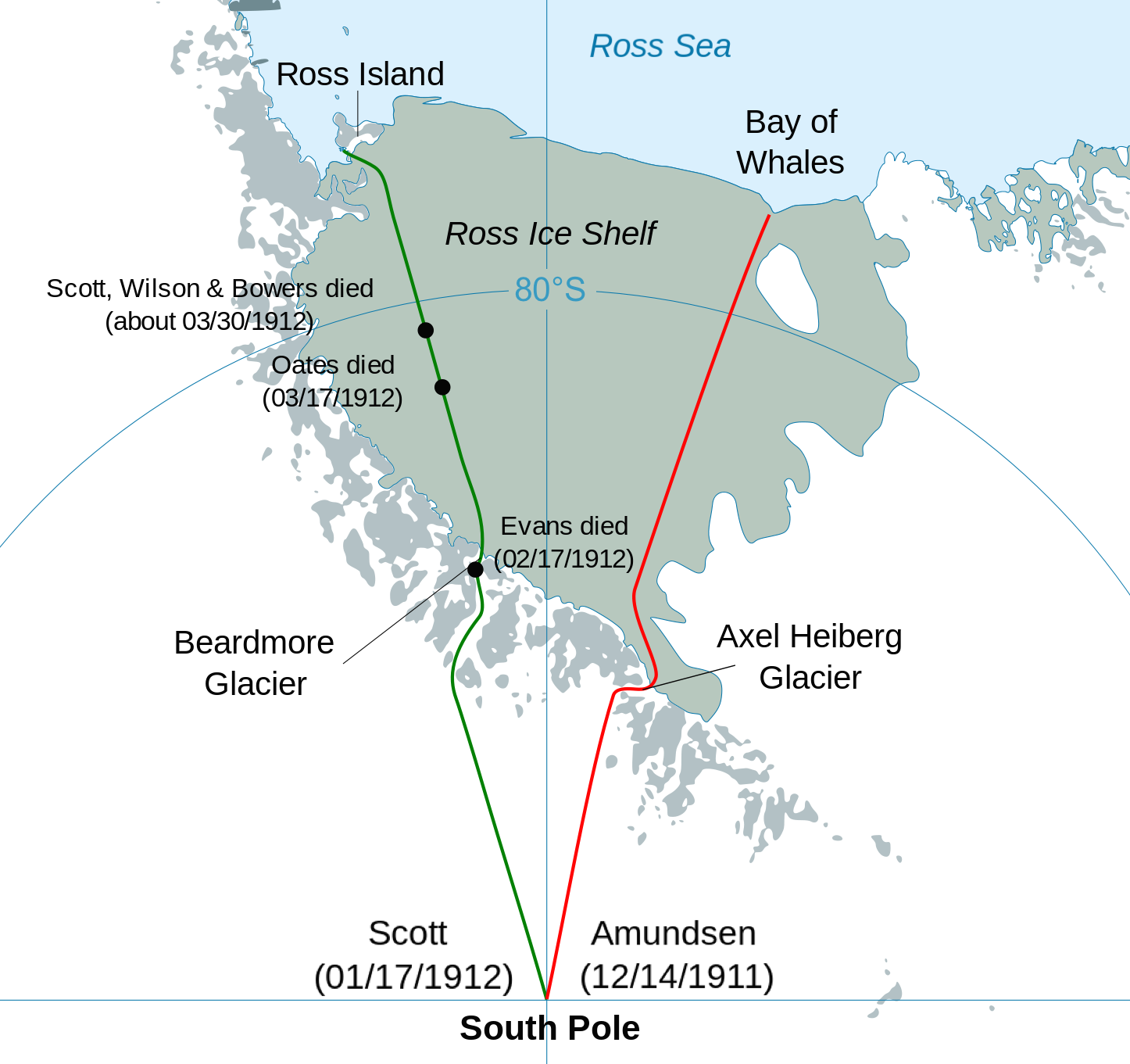 Comparison og Amundsen and Scott antartic expedition 1911 Cropped version of File:Antarctic expedition map (Amundsen - Scott)-en.svg